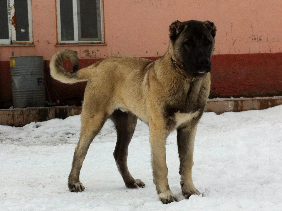 Kangal dog